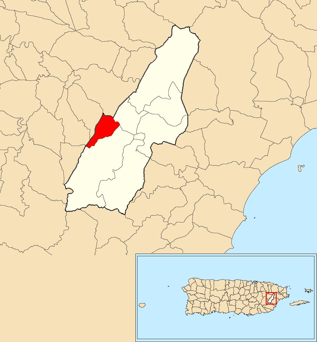 Ceiba, Las Piedras, Puerto Rico locator map